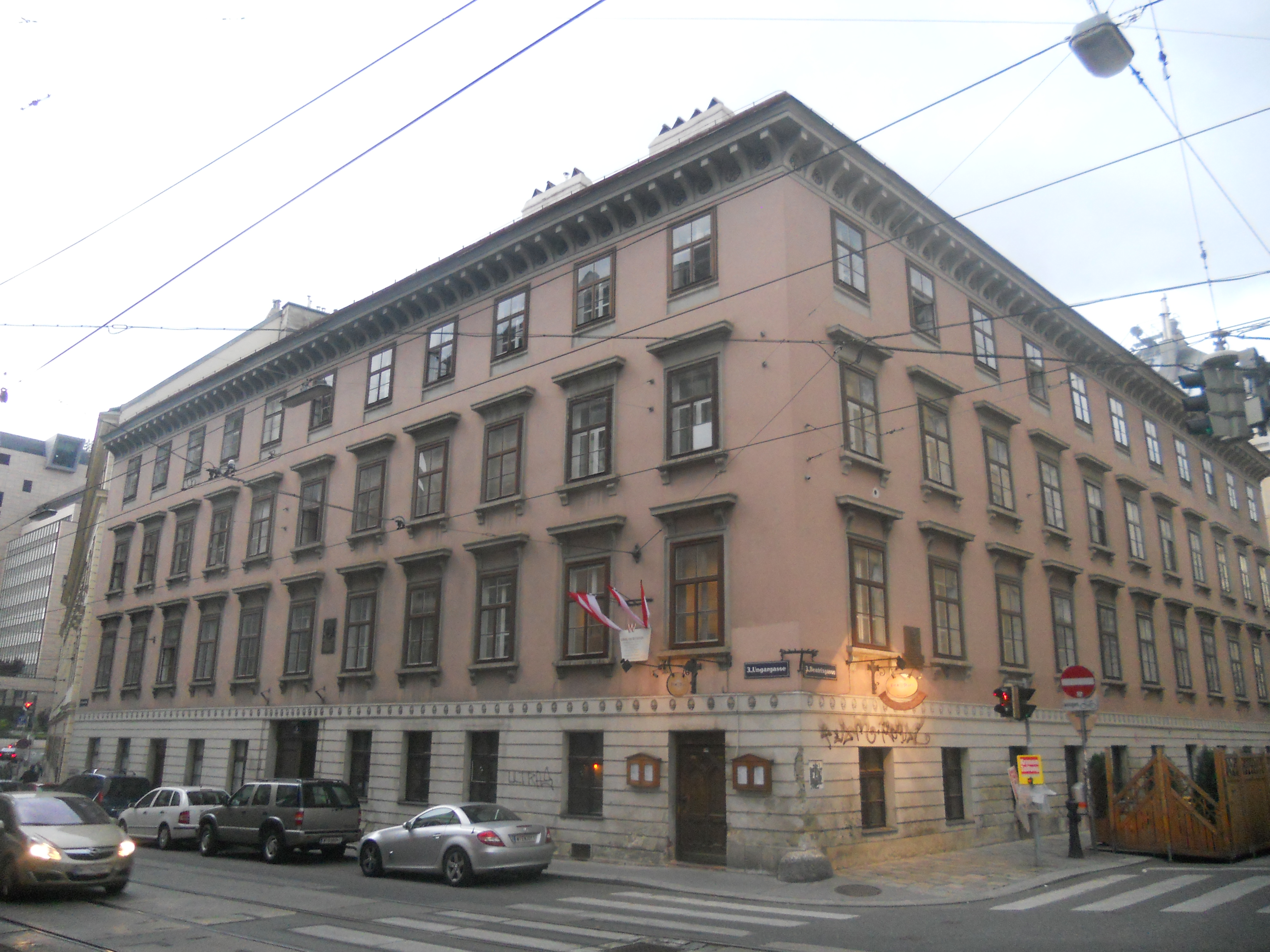 House Ungargasse 5 in Vienna. Here, Ludwig van Beethoven finished his 9th symphony.